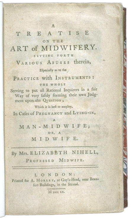 Frontispiece of Treatise on the Art of Midwifery Elizabeth Nihell's first publication: Setting forth various abuses therein, especially as to the practice with instruments: the whole serving to put all rational inquirers in a fair way of very safely forming their own judgment upon the question; which it is best to employ, in cases of pregnancy and lying-in, a man-midwife; or, a midwife